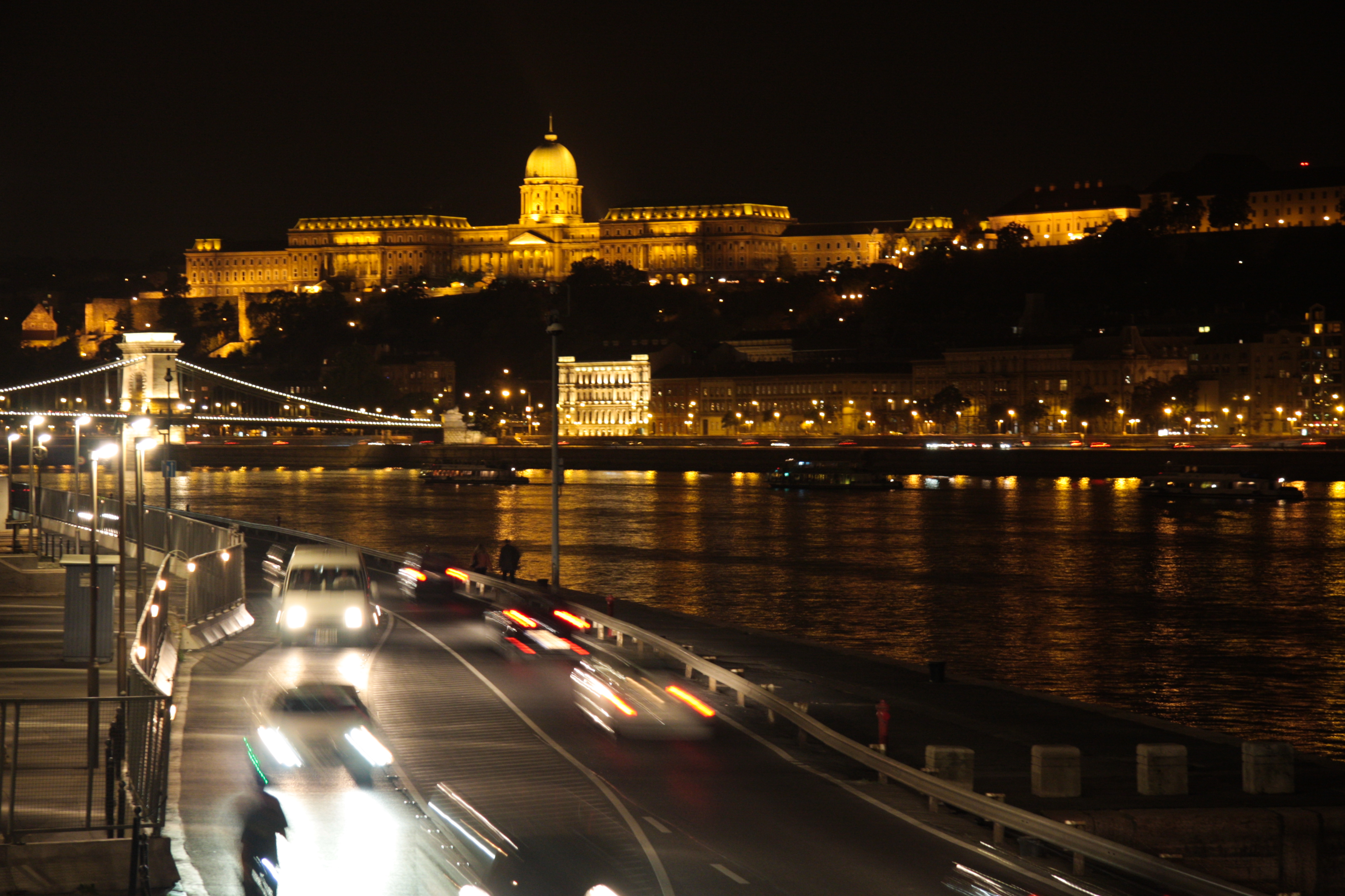 The view of the Danube, the Buda Castle and the Széchenyi Chain Bridge at night (Budapest, Hungary).